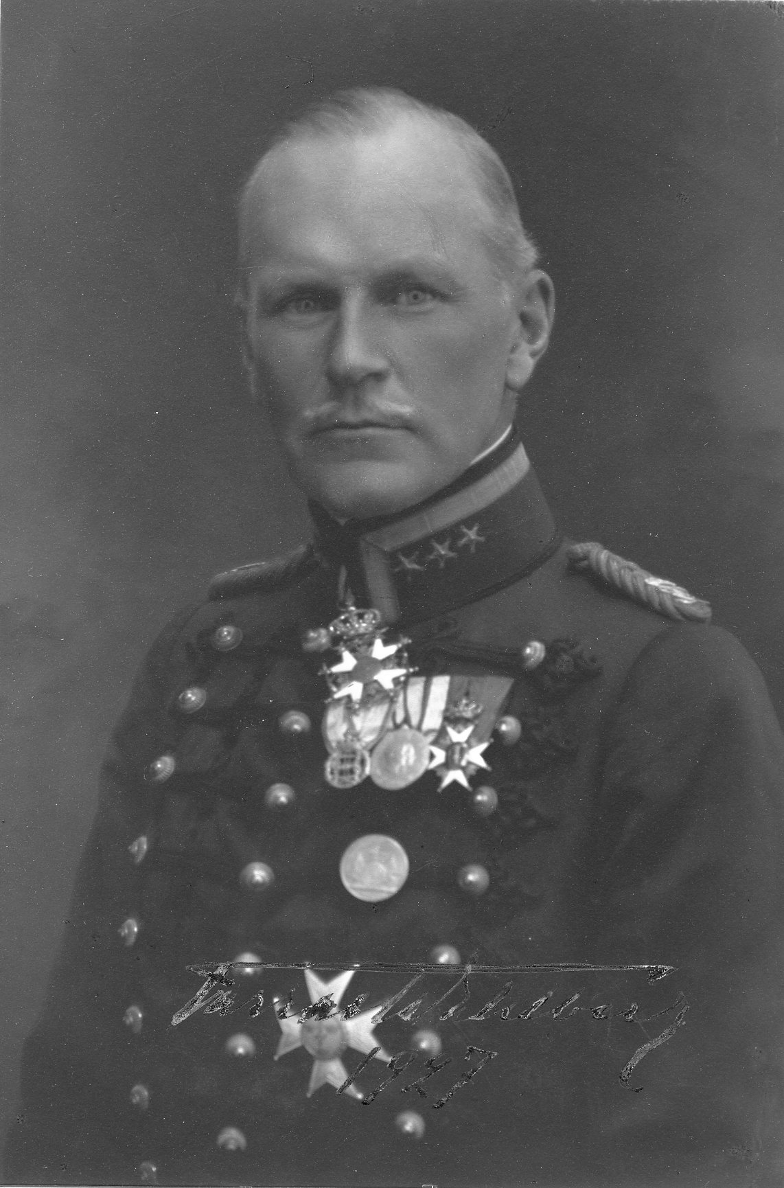 Colonel Bo Tarras-Wahlberg, regimental commander of Småland Artillery Regiment (A 6).